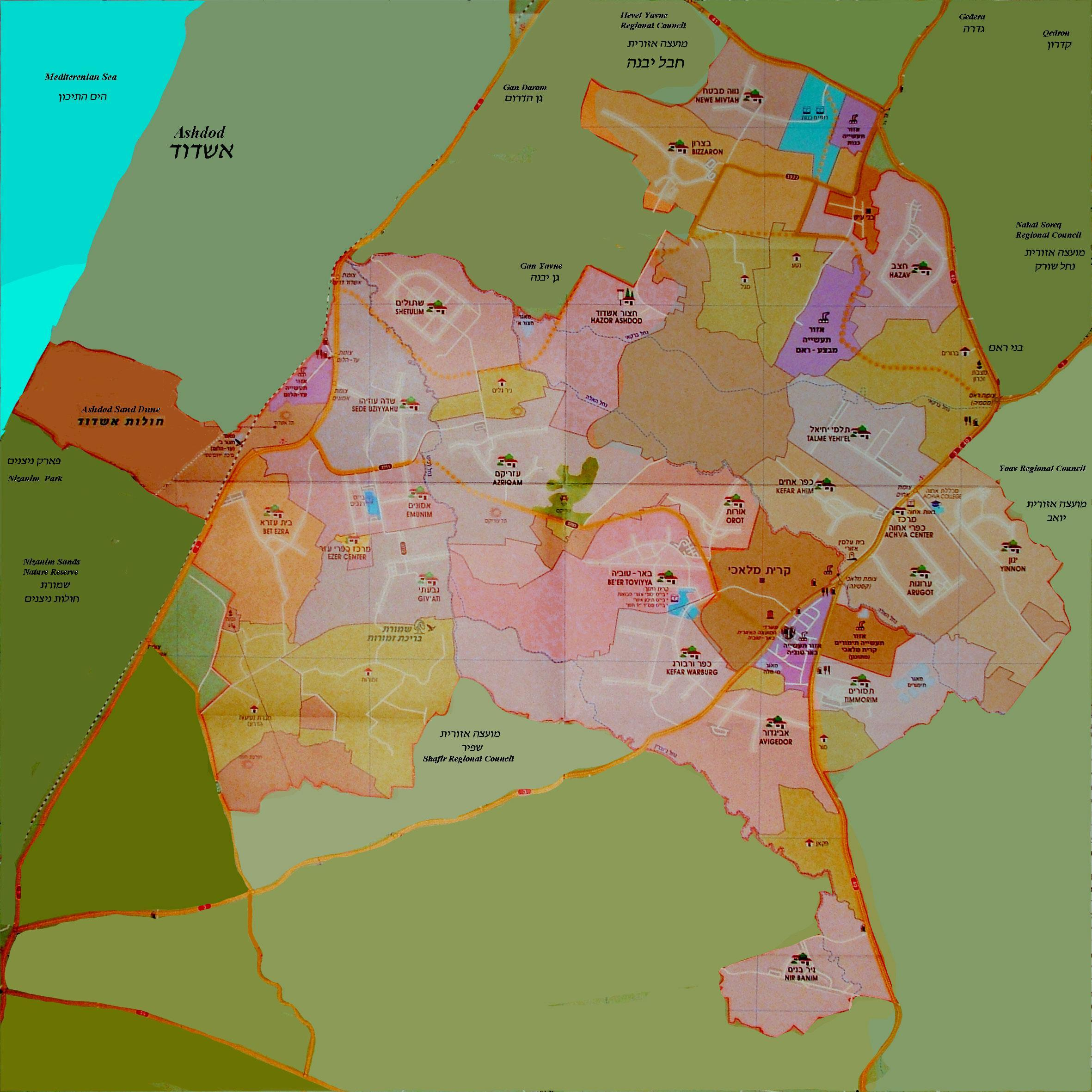 Map of Be'er Tuvia Regional Council, Israel